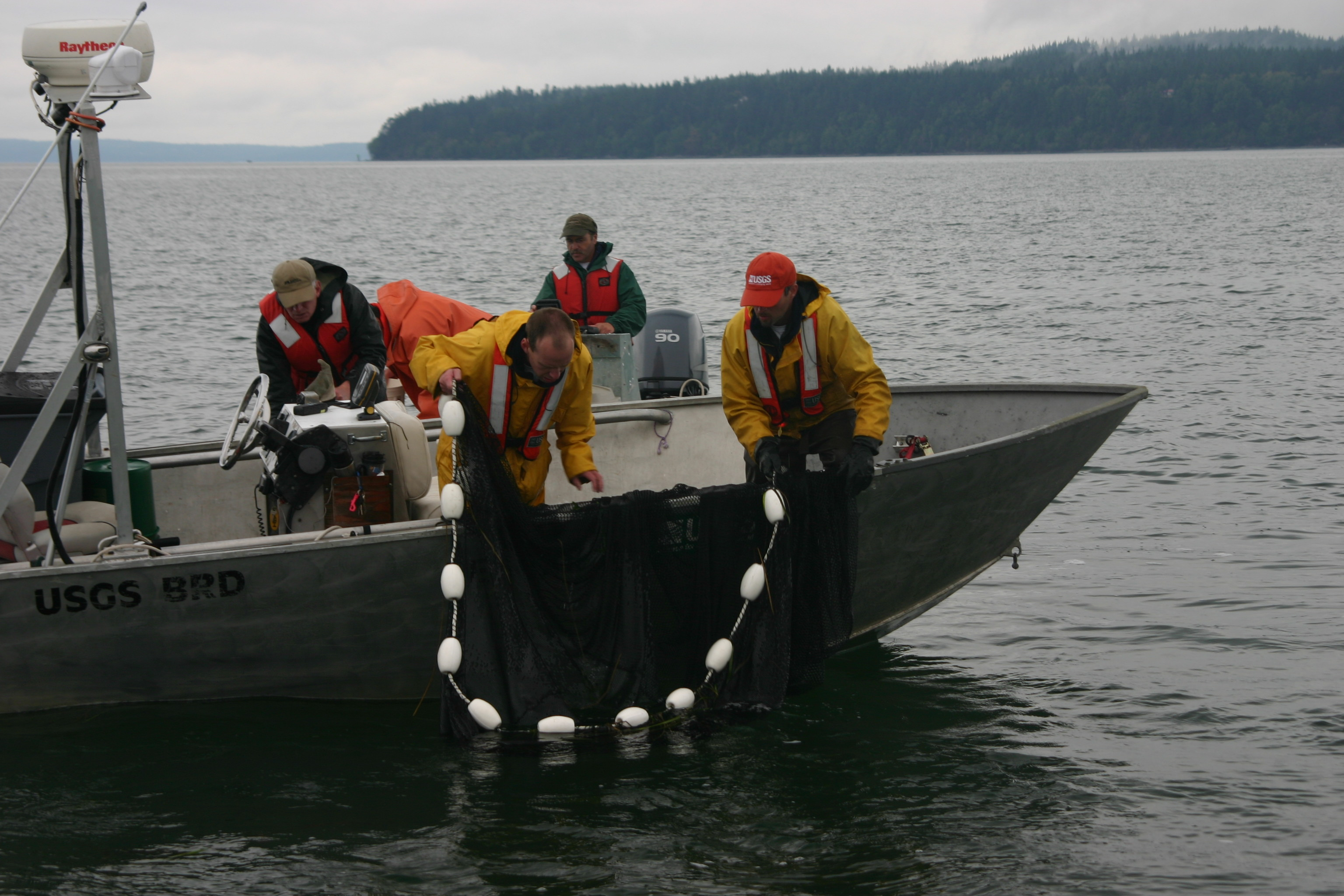 USGS employees attempt to capture forage fish with the use of a Lampara net in Skagit Bay, WA, USA